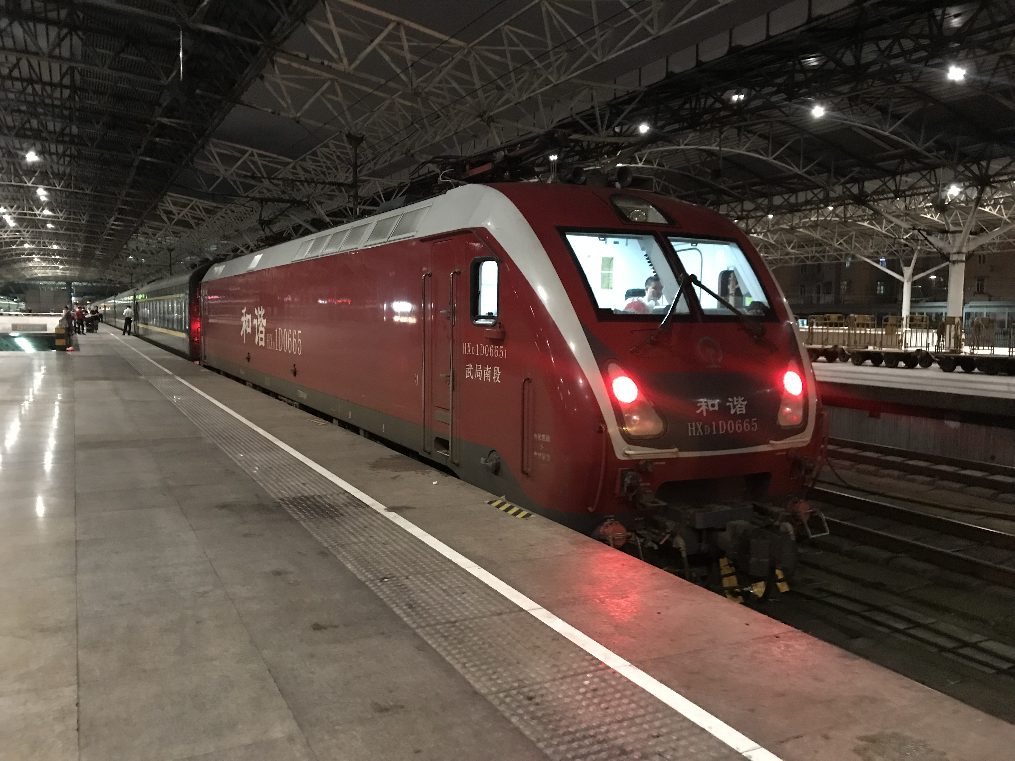 Have been waiting for this image for so long.